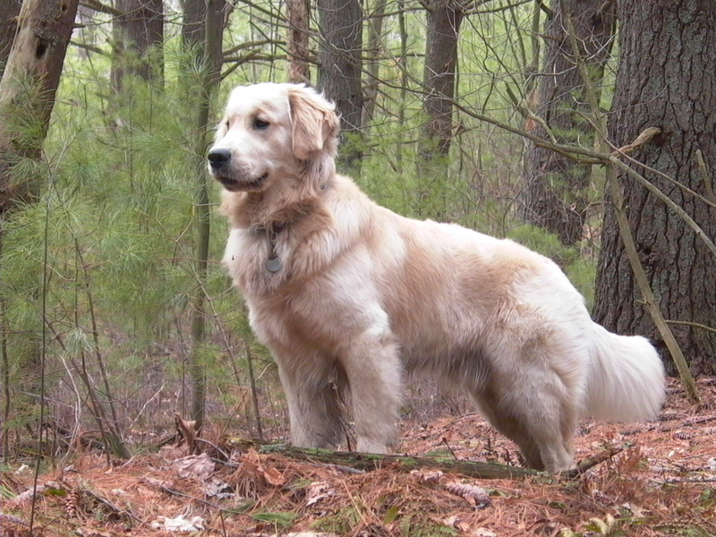 A male Golden Retriever named Tucker.